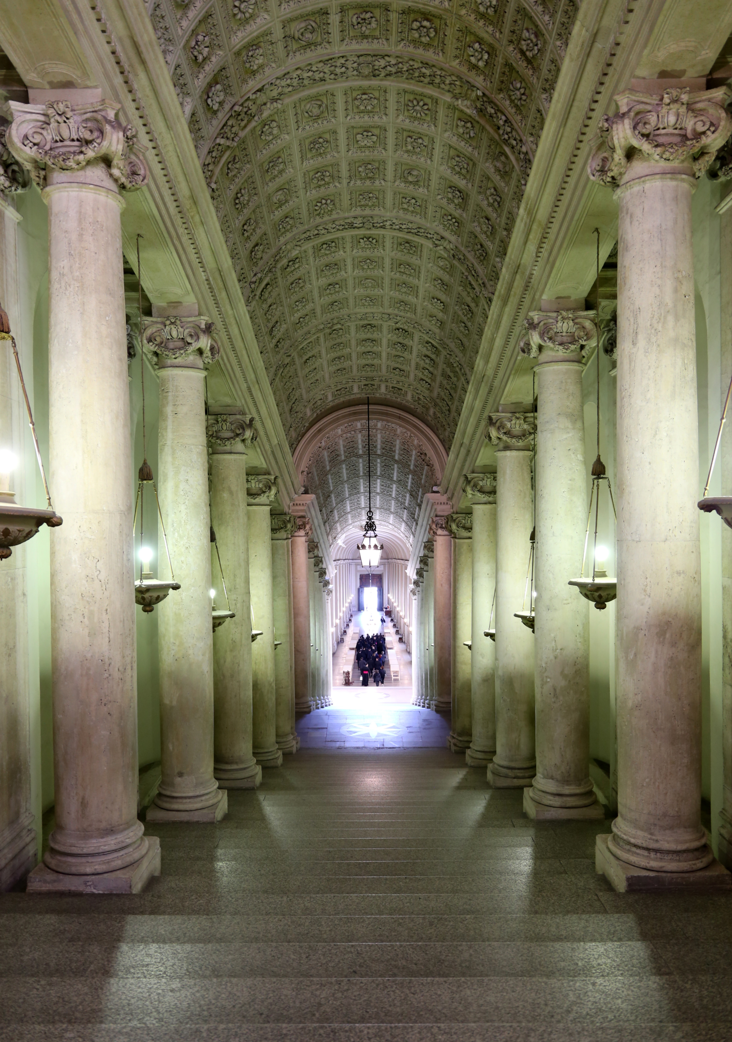 Scala Regia (view towards the Portone di Bronzo)